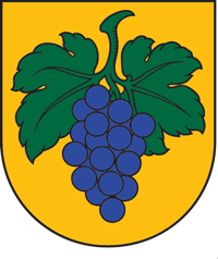 Coat of arms of the city of Sabile, Latvia.